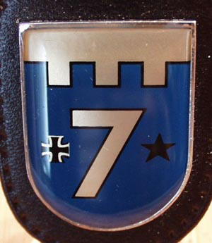 Support Command 7